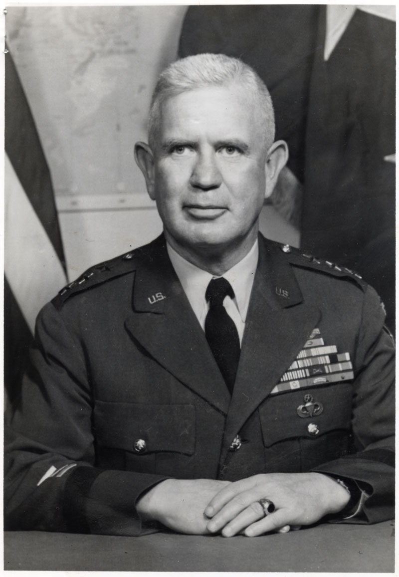 Official photo of General Ben Harrell, ineligible for copyright